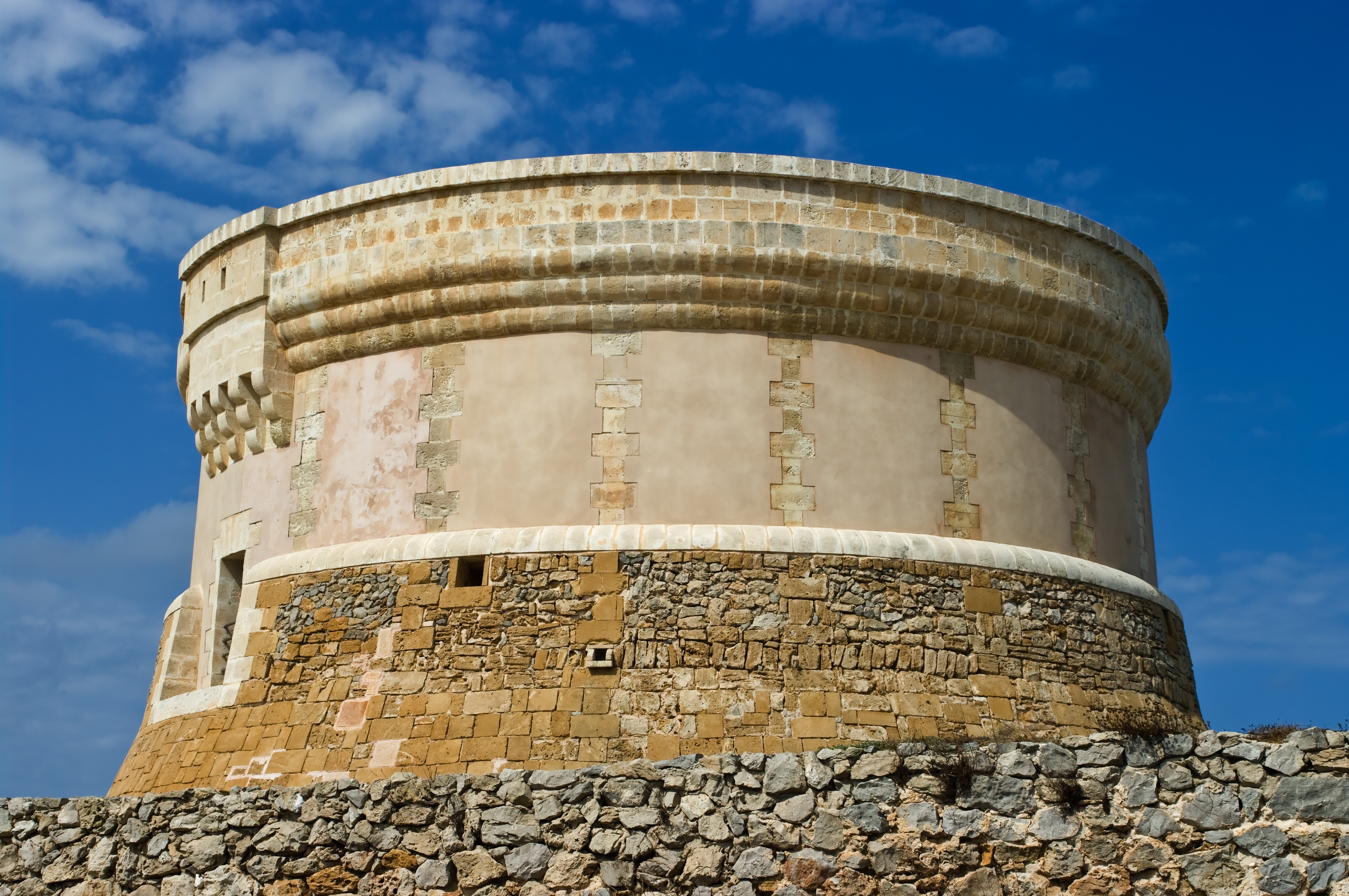 Defense tower of Fornells, Minorca.